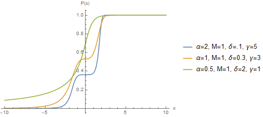 Hyperbolastic Type II with positive delta values.